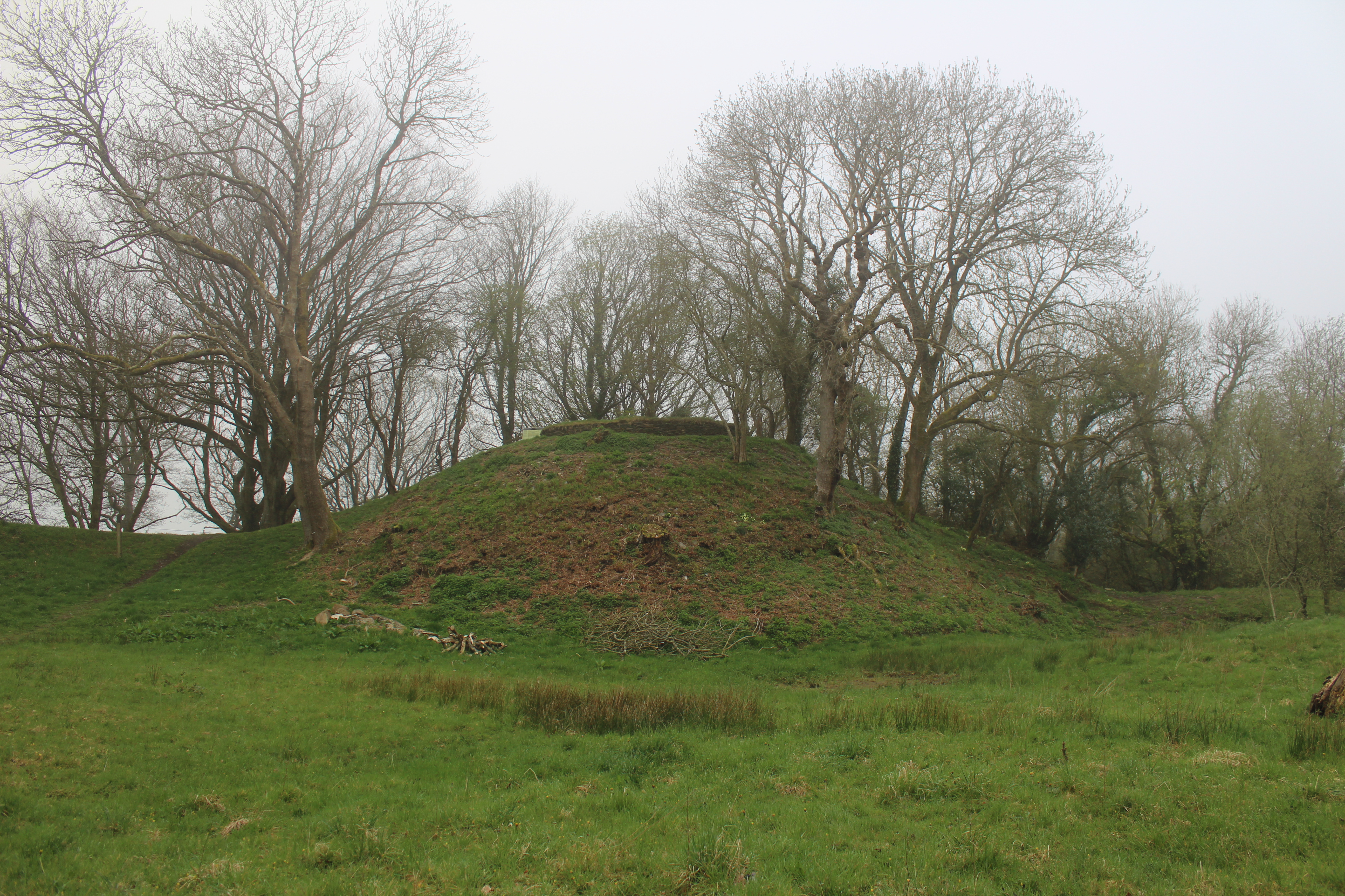 Castell Nanhyfer, Nevern Wikidata has entry Q31108153 with data related to this item.